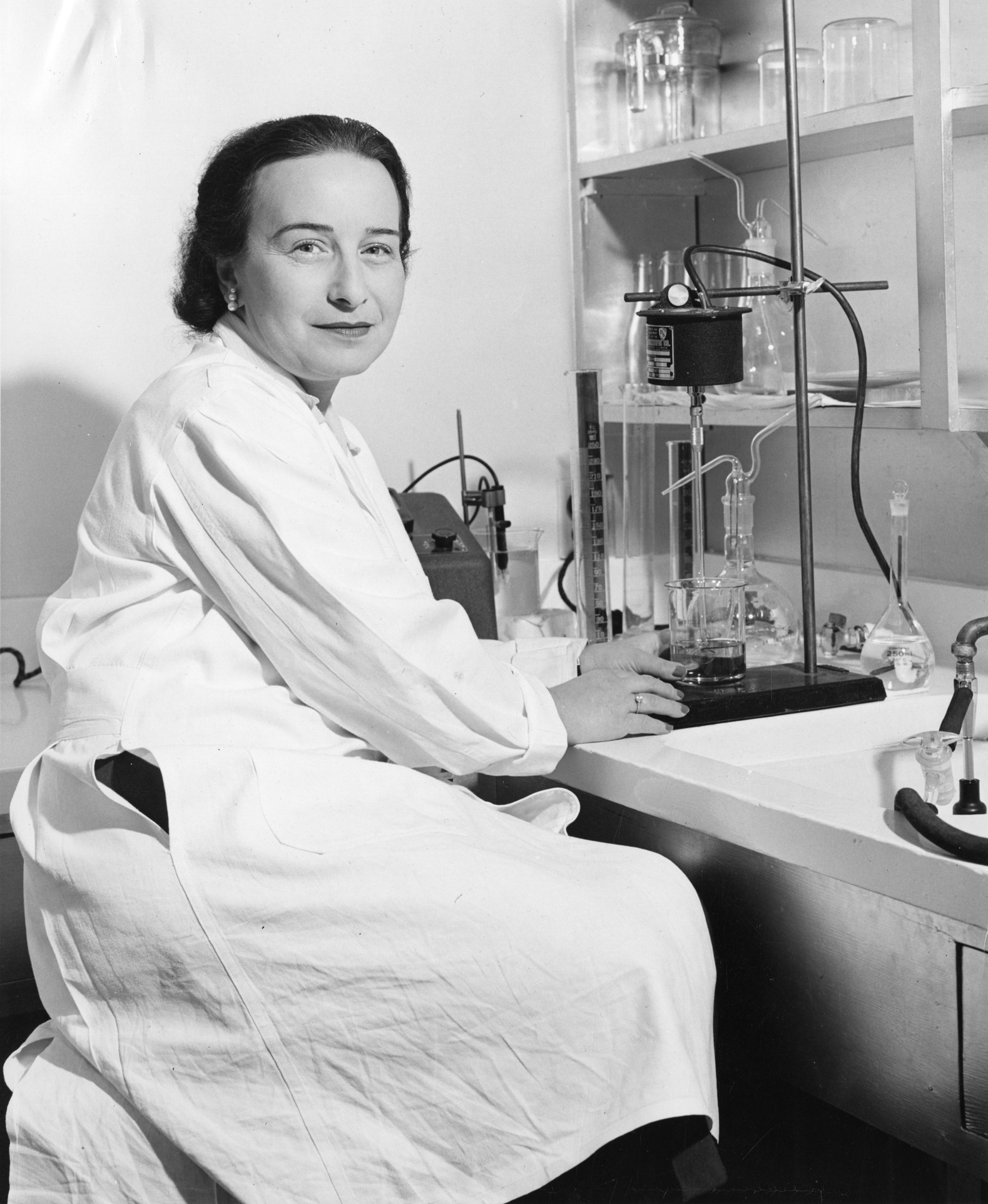 Creator: Skeleton Studios Subject: Einstein, Elizabeth Roboz Cornell University Stanford Research Institute Stanford University University of Vienna University of Budapest Type: Black-and-white photographs Date: 1948 Topic: Biochemistry Neurosciences Women scientists Local number: SIA Acc. 90-105 [SIA2009-2371] Summary: Biochemist and neuroscientist Elizabeth Roboz Einstein (1904-1995) had just left the Cornell University Sugar Research Foundation joined the Food Research Laboratory at Stanford Research Institute when Stanford University distributed this photograph. Born in Hungary, Einstein had studied at the University of Vienna and University of Budapest and immigrated to the United States in 1940 Cite as: Acc. 90-105 - Science Service, Records, 1920s-1970s, Smithsonian Institution Archives Persistent URL:Link to data base record Repository:Smithsonian Institution Archives View more collections from the Smithsonian Institution.